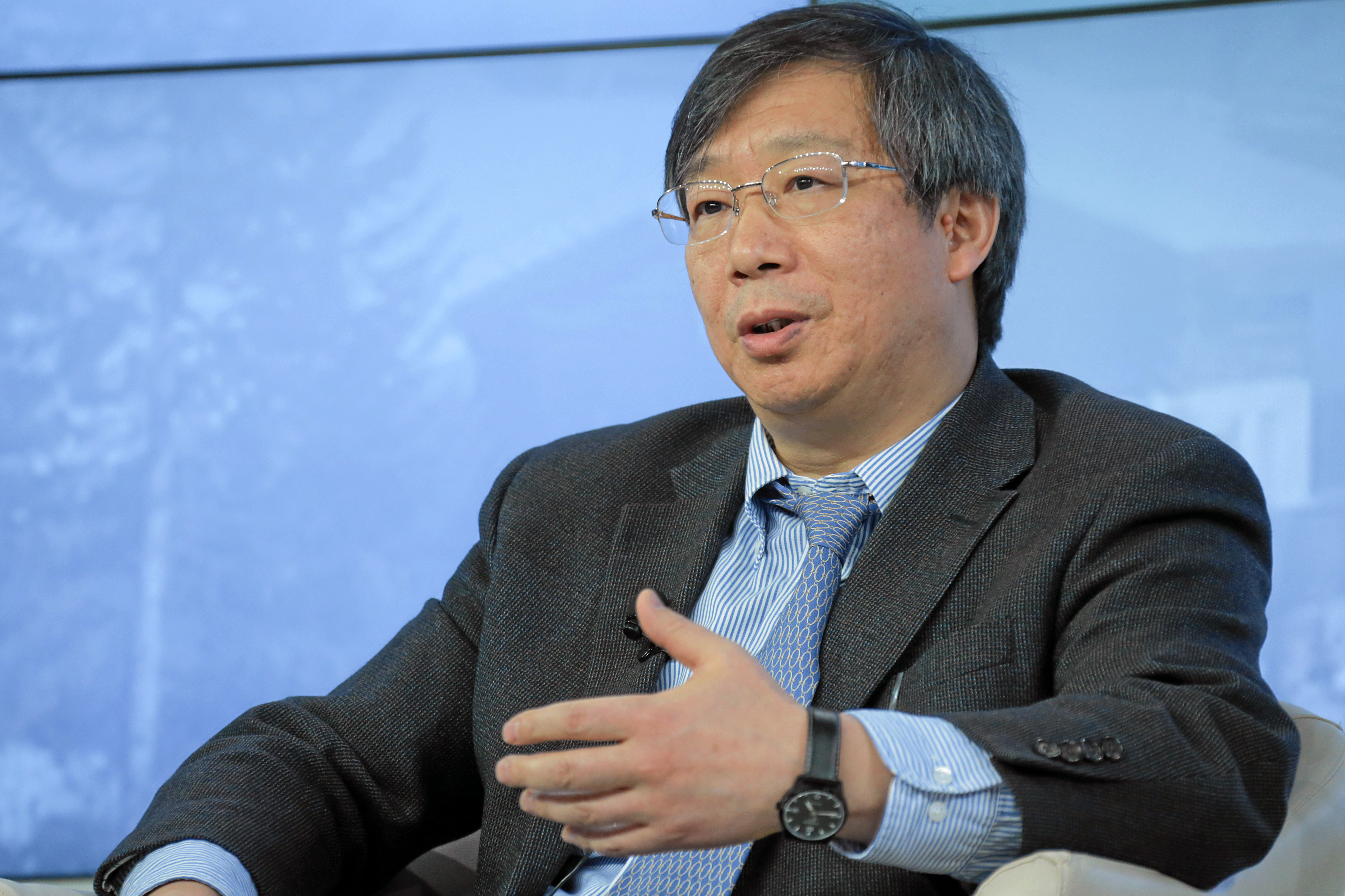 DAVOS/SWITZERLAND, 25JAN13 - Yi Gang, Deputy Governor, People's Bank of China, People's Republic of China speaks during the session 'Emerging Economies at a Crossroads' at the Annual Meeting 2013 of the World Economic Forum in Davos, Switzerland, January 25, 2013. . . Copyright by World Economic Forum. . Remy Steinegger